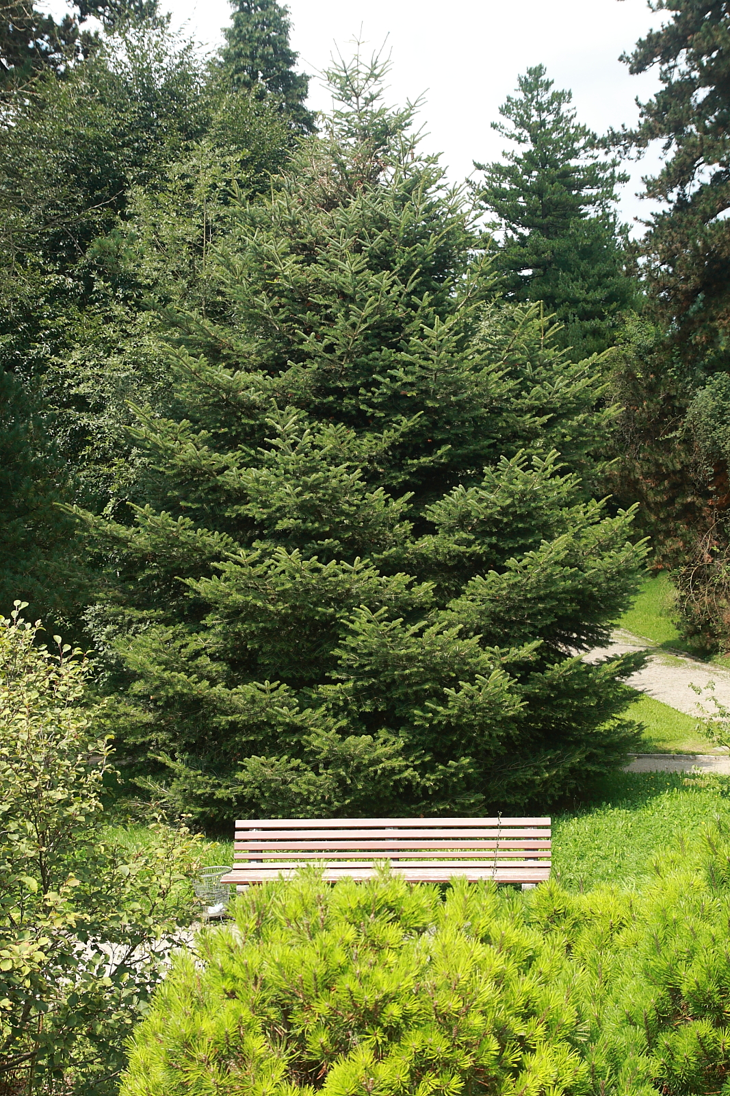 Manchurian fir (Abies holophylla) in Munich Botanical Garden.